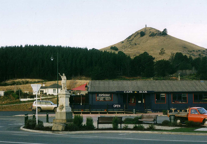 The peak of Puketapu dominates Palmerston, New Zealand.